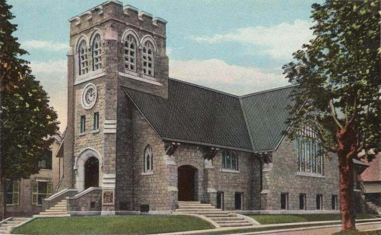 Deering Memorial Church, South Paris, Maine. Designed by architect Sidney Badgley (1850-1917), it was built in 1910-1911, gift of industrialist William Deering (1826-1913).